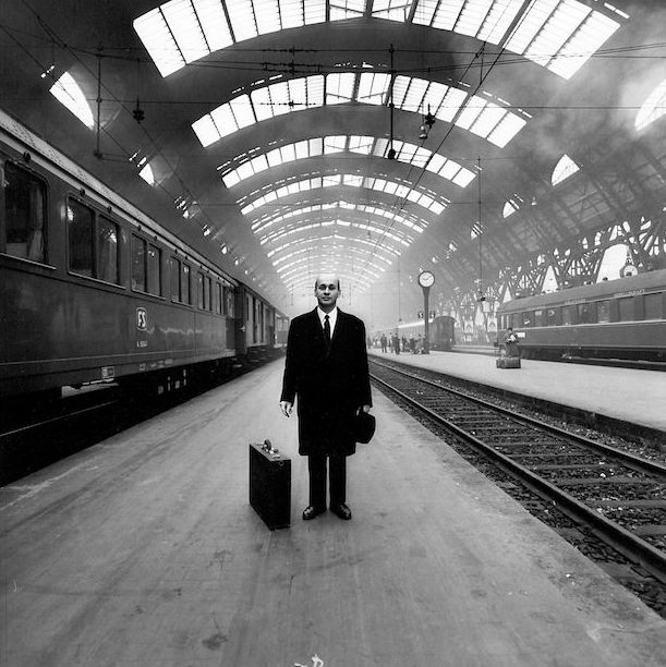 Villiglé by Lothar Wolleh